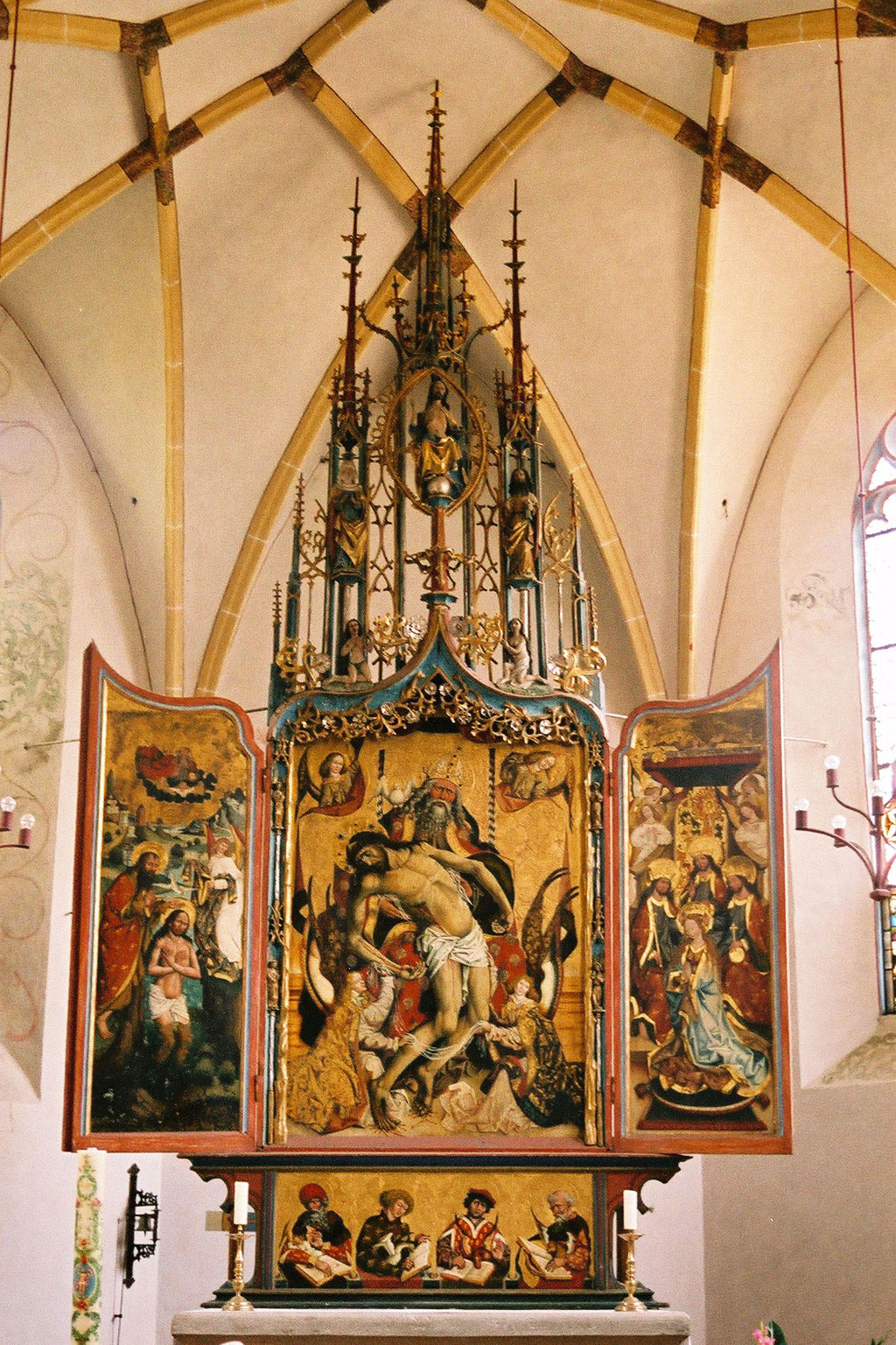 Blutenburg, Munich, main altar of the chapel